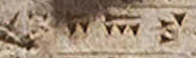 DNA inscription Gadara